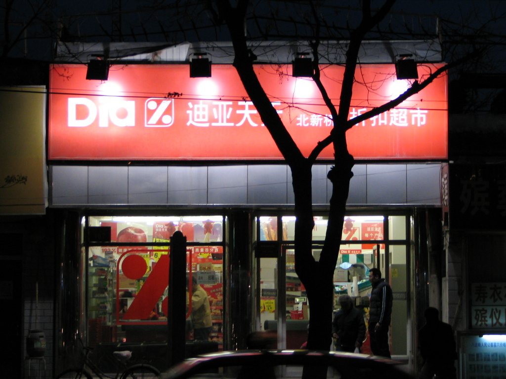 Dia shop in Beijing, near the Yonghe Gong lama Temple.